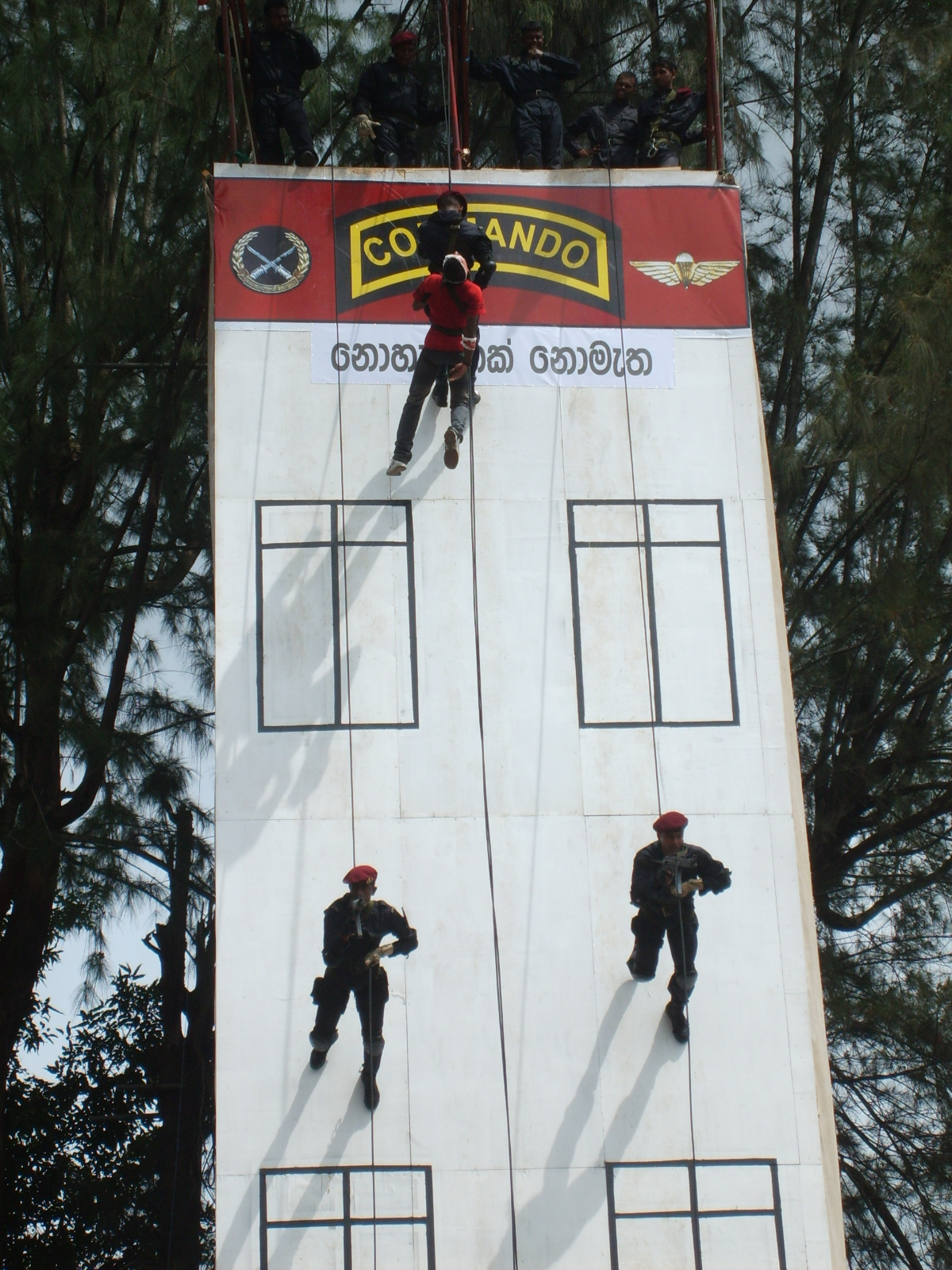 Sri Lanka Army Commandos rappel down with a hostage during an enactment of a hostage rescue scenario at the Army 60th Anniversary Exhibition.